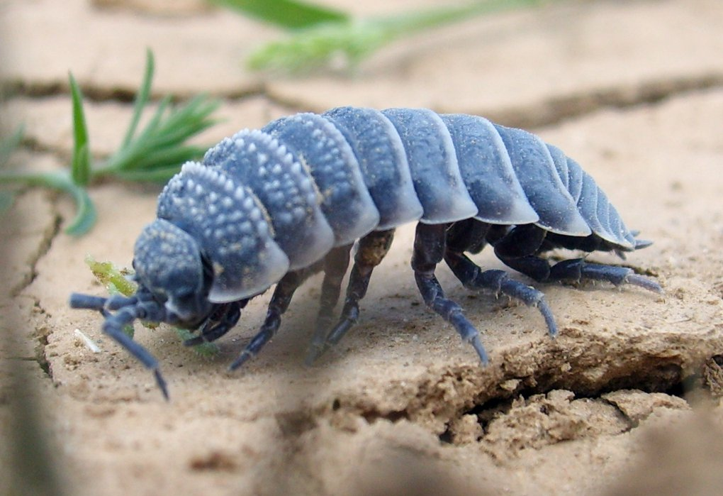 A desert isopod Hemilepistus reaumuri in its original habitat in Tunisia.